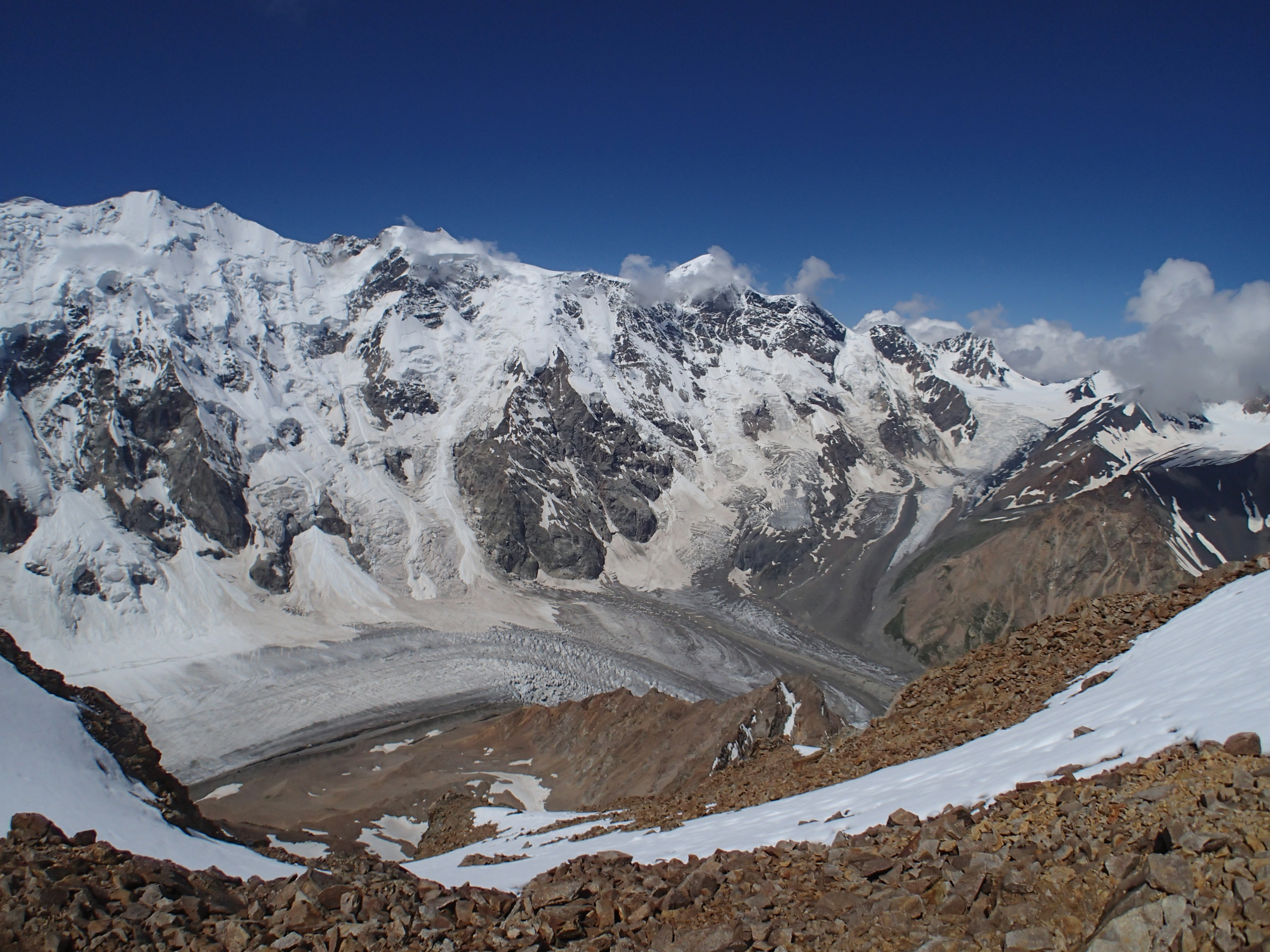 The highest peak in the left is Джангитау (Dzhangi-Tau; 5059m). The next peak to its right is Катынтау (Katin-Tau; 4979m). The next triangular snowy peak to its right (partially covered with a cloud) is Гестола (Gestola; 4860m). The third right peak from it, just left of the top of the high glacier (ледник Чегет-Безенги; Glacier Cheget-Bezengi) is ЛяльВер (Lyalver; 4355m). Shot from the summit of Пик Семеновского (4082m) with a fisheye lenz.